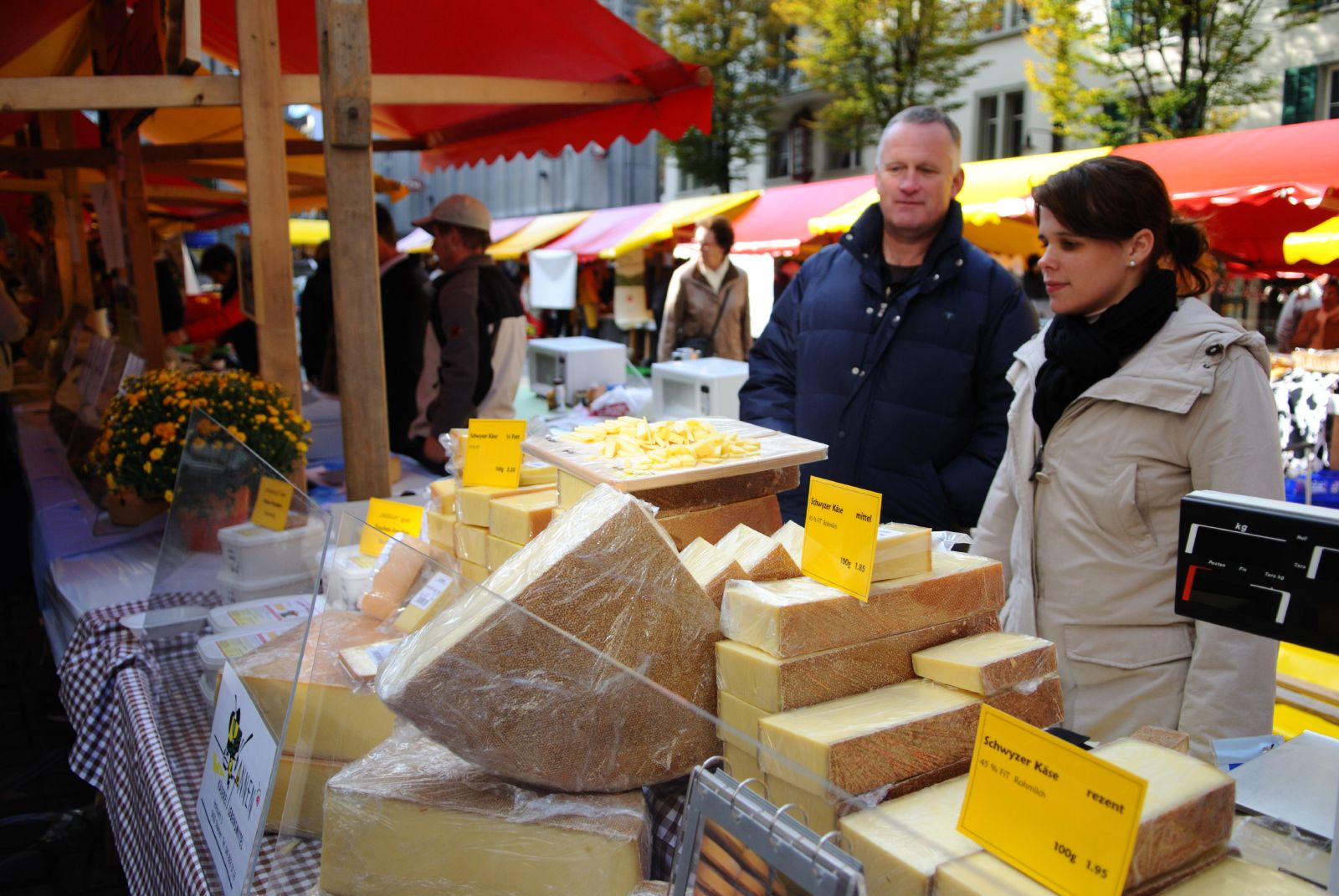 Created by Maks uploaded to Flickr 20th Oct 2007